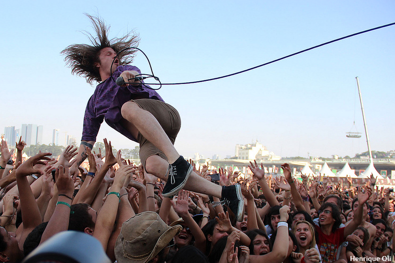 Cage The Elephant at Lollapalooza BR 2012, photo by Henrique Oli (